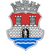 Coat of Arms of Pančevo